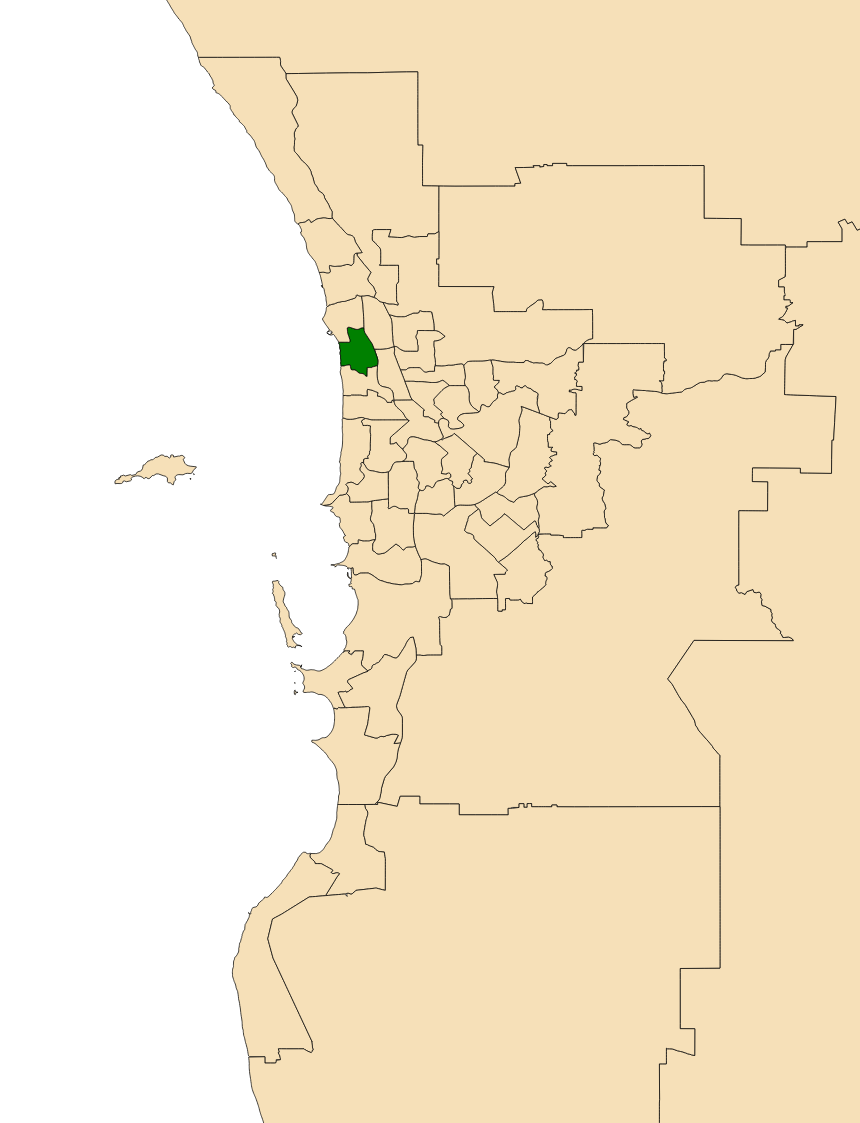 Location of the electoral district of Carine in the Perth metropolitan area, Western Australia as of the 2017 WA state election.